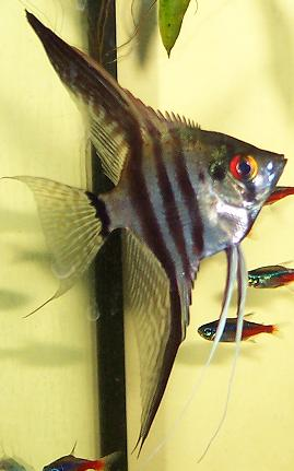 Pterophyllum scalare - Angel Fish